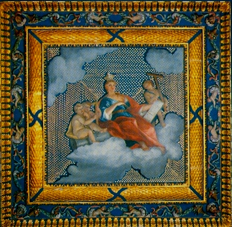 The ceiling of the Blue Velvet Room depicting 'Architecture' with dividers and aided by three putti clutching architectural implements